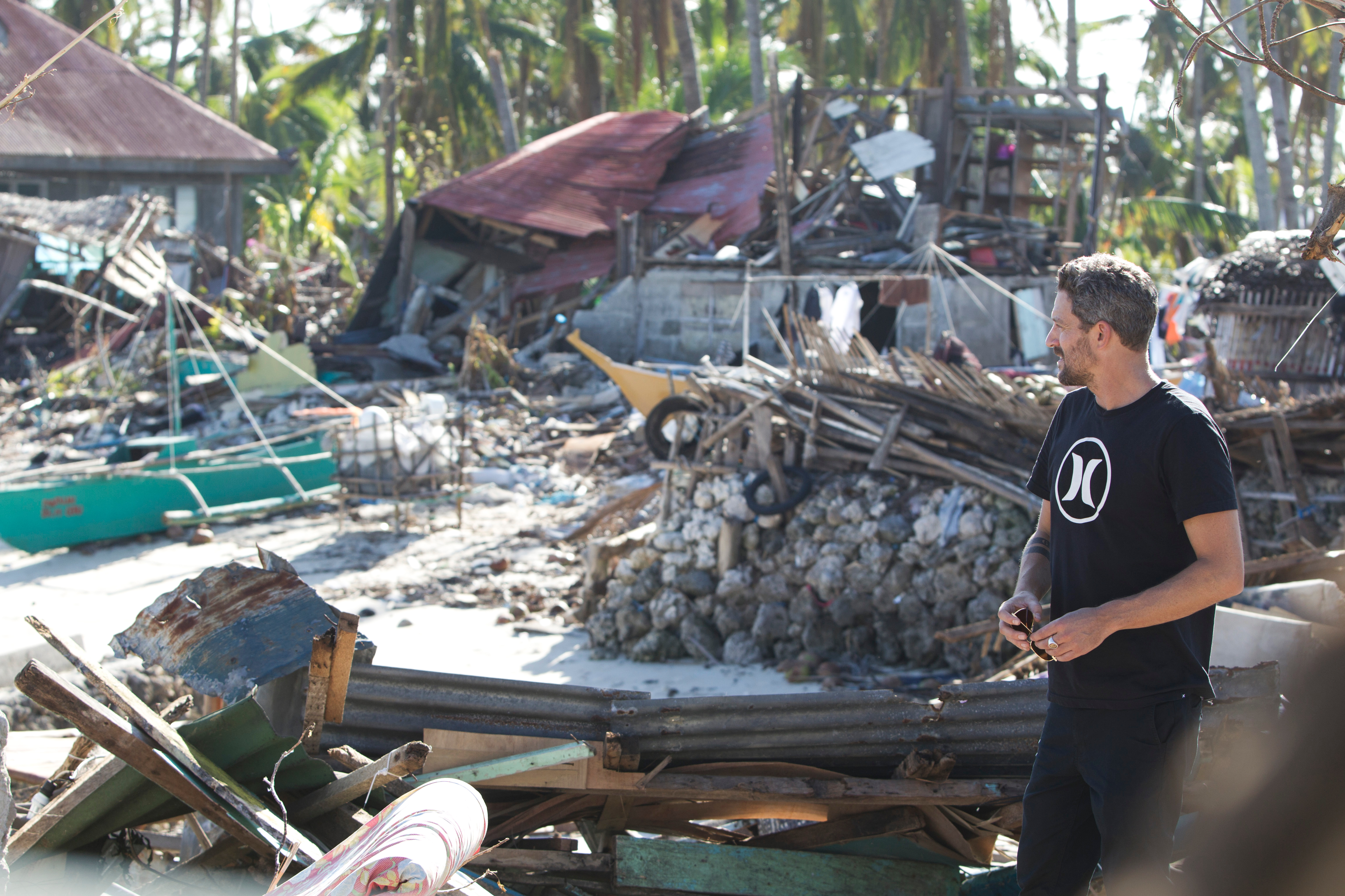 Jon Rose, founder of Waves For Water in the Philippines to do clean water project after the Typhon has hit.